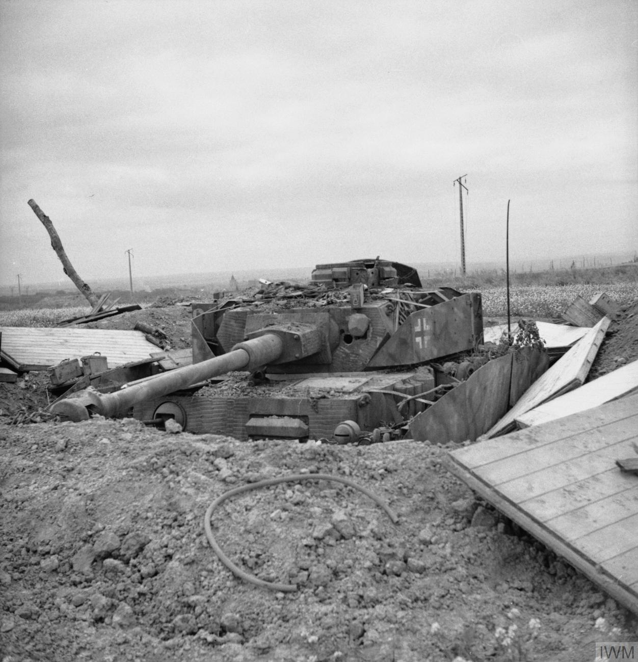 A knocked-out German PzKpfw IV tank in a hull-down position, 13 July 1944. Additional info: "A dug-in Panzer IV of the 1/22nd Panzer Regiment, photographed near Lebisey after being knocked out during Operation Charnwood.(Battle for Caen, p. 34, by Simon Trew. ISBN:0-7509-3010-1)